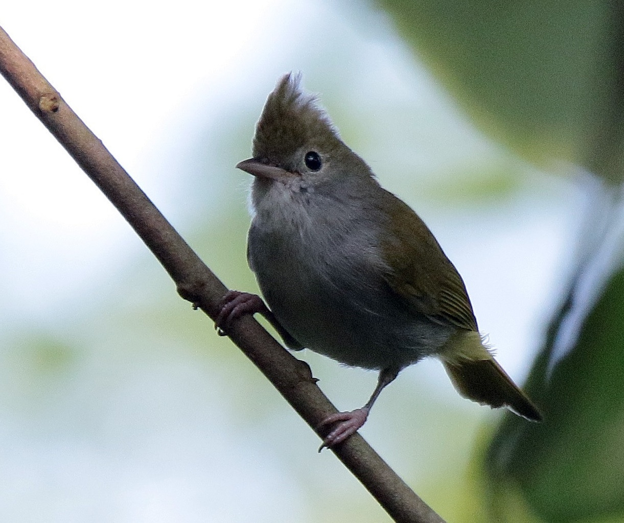 White-bellied erpornis in Ba Vi national park